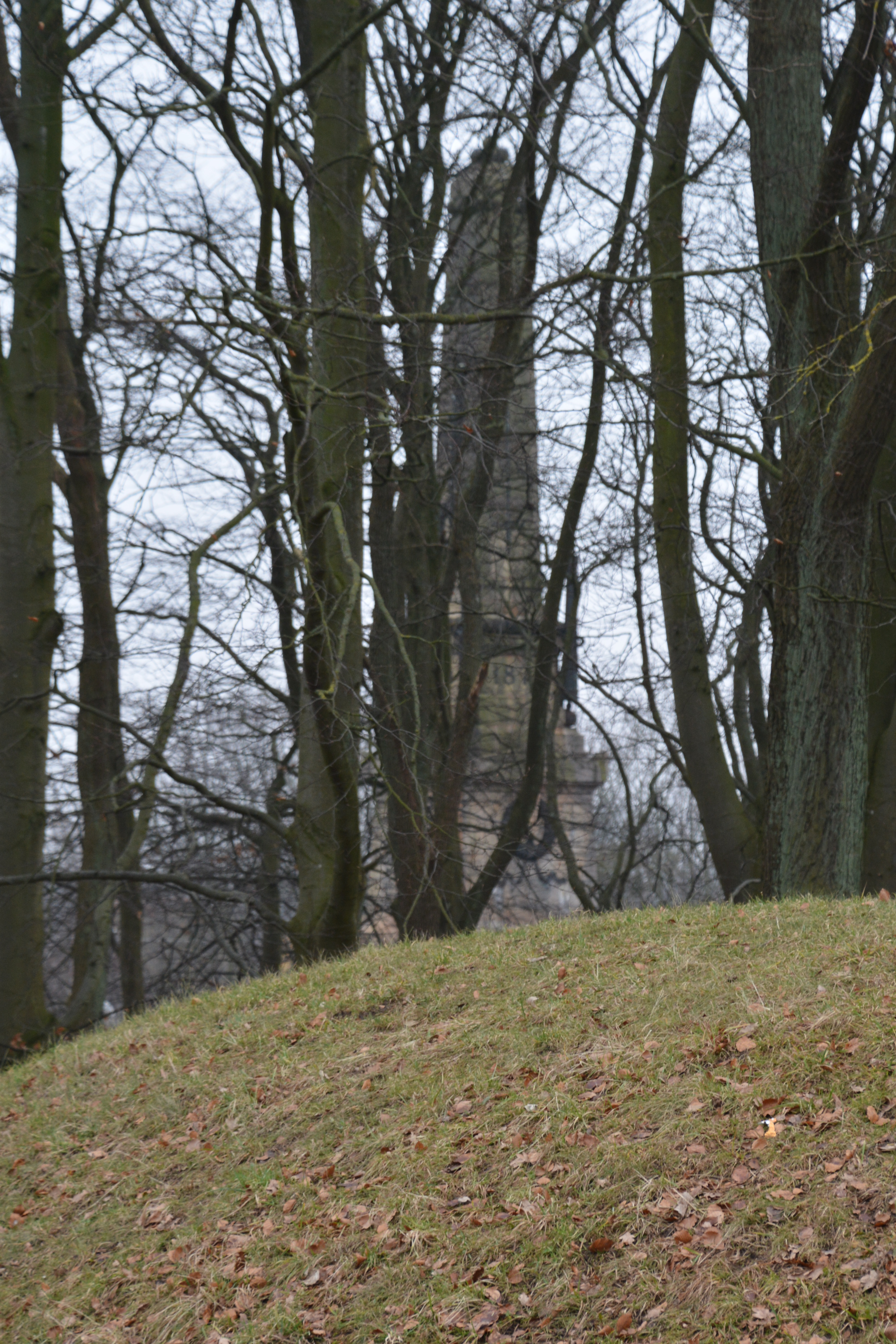 Lerbäckshög med Monumentet i bakgrunden